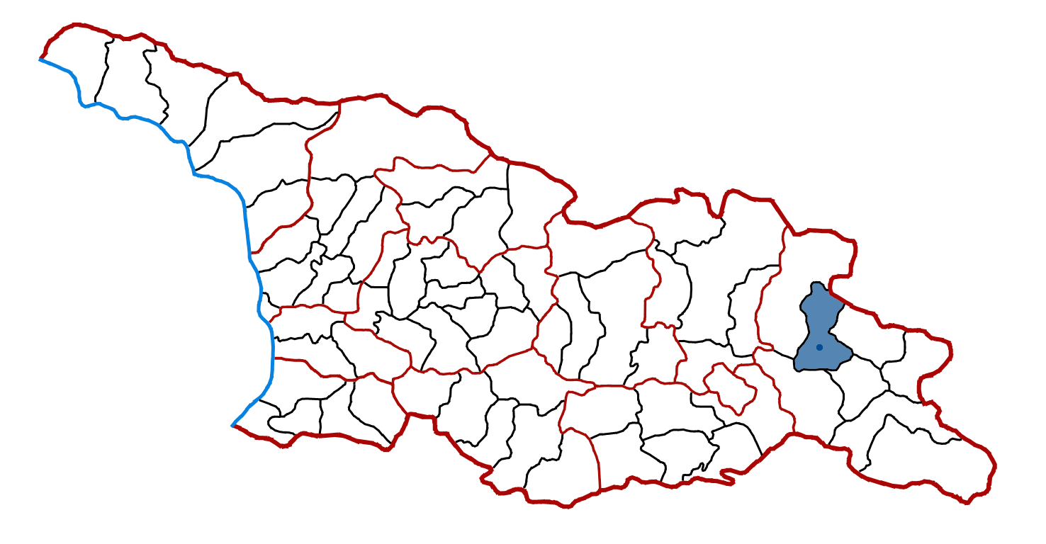 Location of Telavi district in Georgia